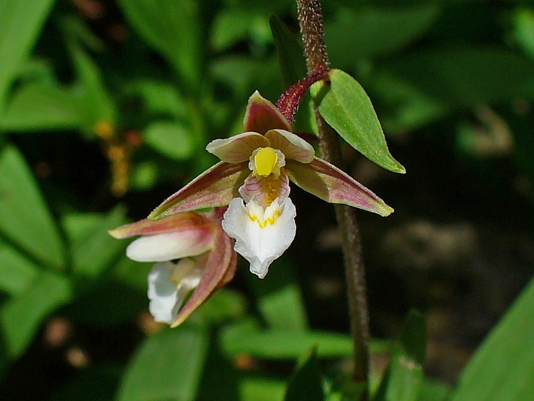 Epipactis palustris, Orchidaceae, Marsh Helleborine, flower; Botanical Garden KIT, Karlsruhe, Germany.